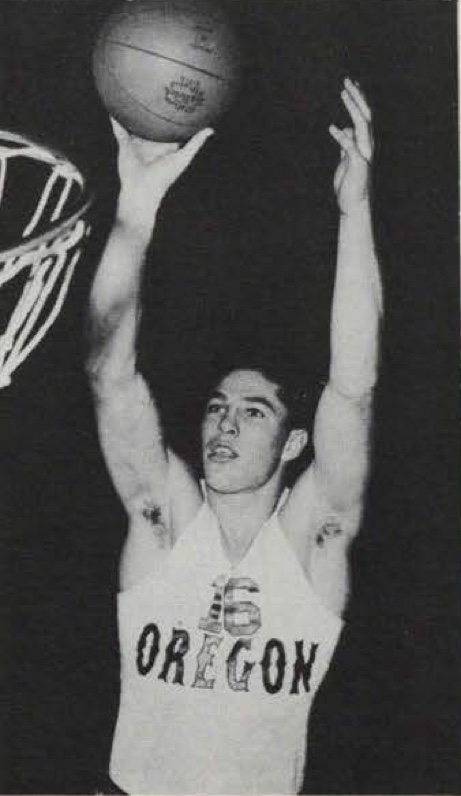 University of Oregon basketball player Bob Peterson in 1952